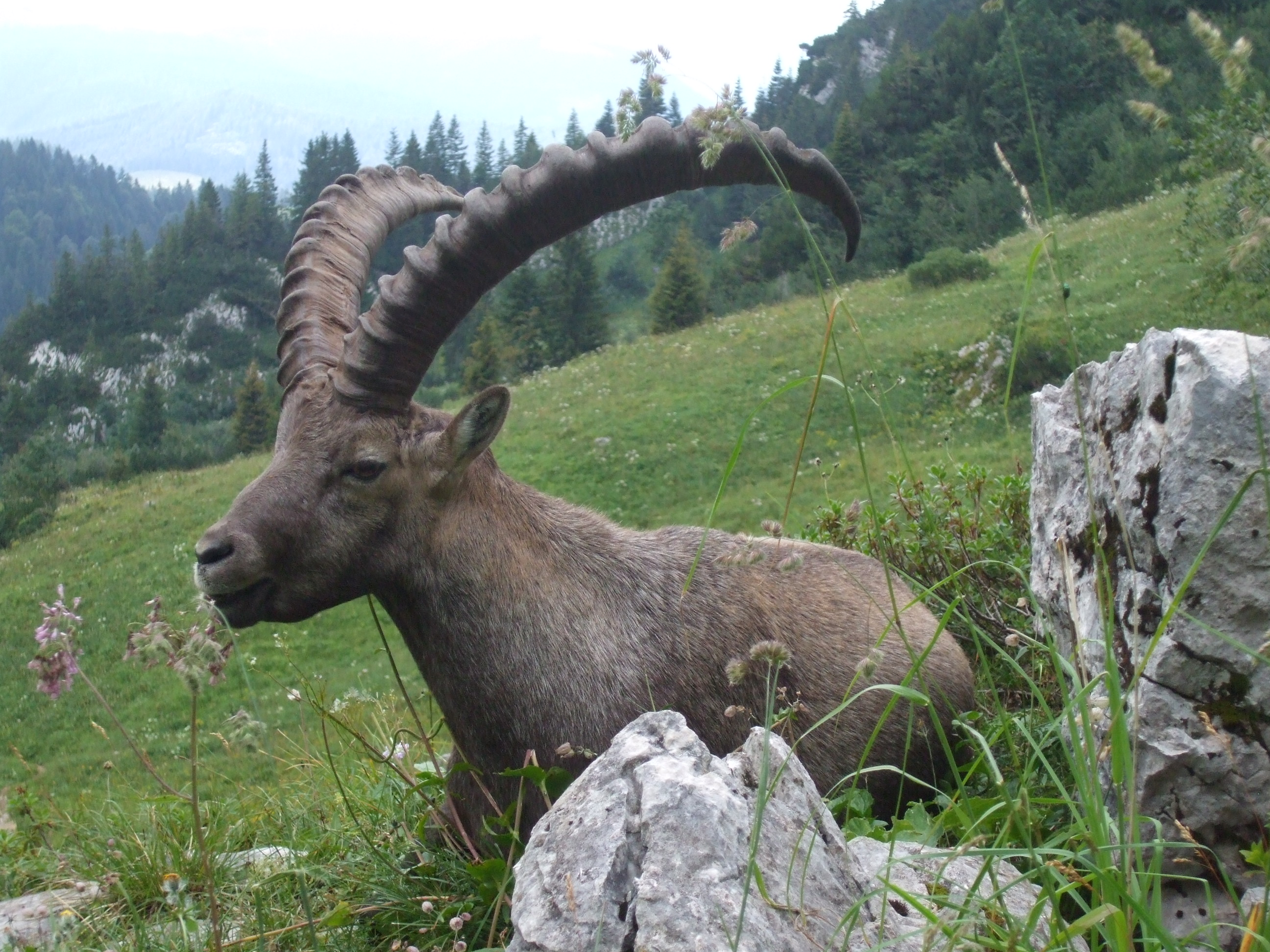 Alpine ibex in the territory of Benediktenwand, Germany